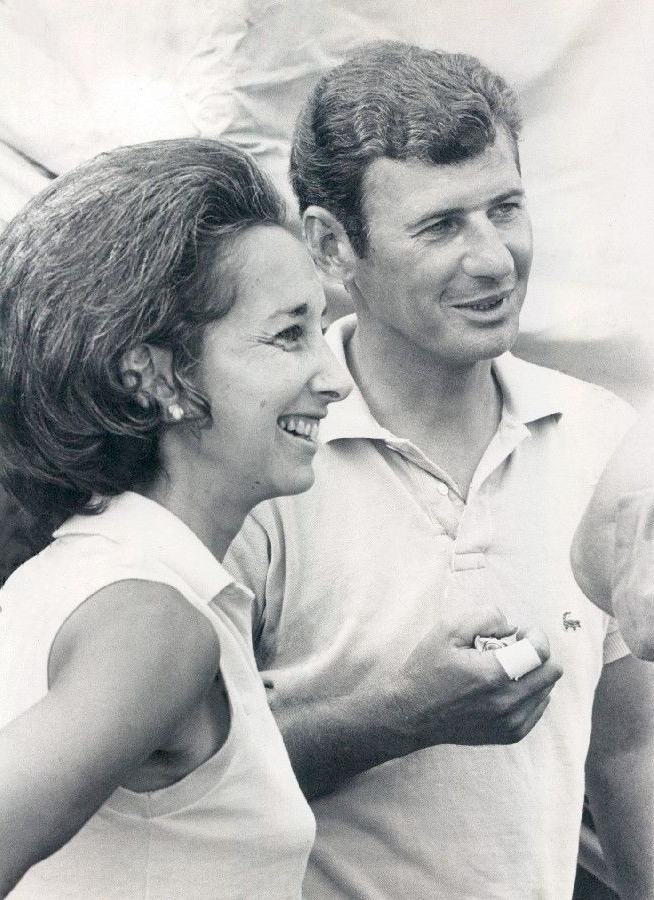 1970 Professional Golfer Jack Keifer & his Wife Talked to Others Press Photo